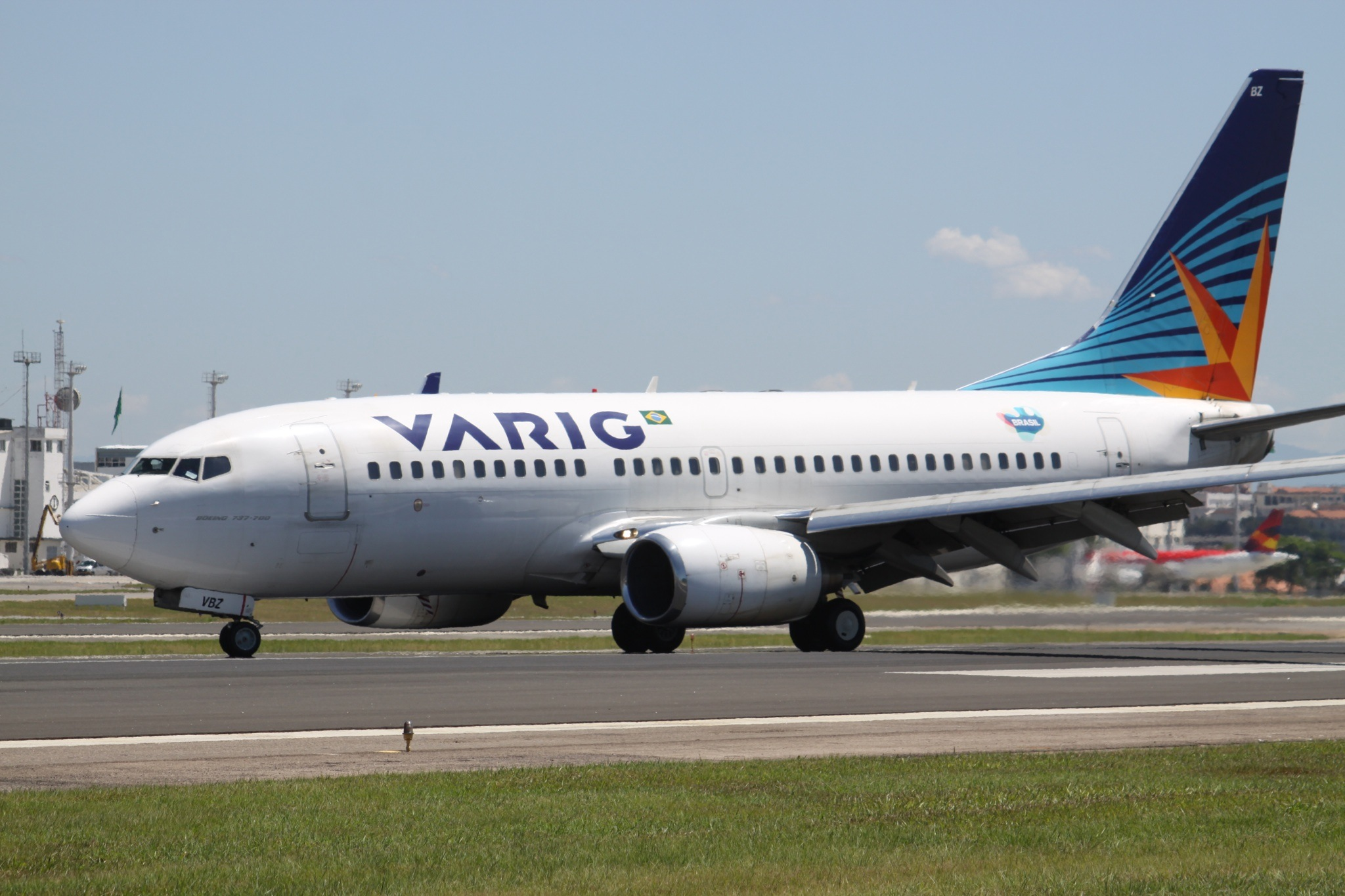 At Santos Dumont